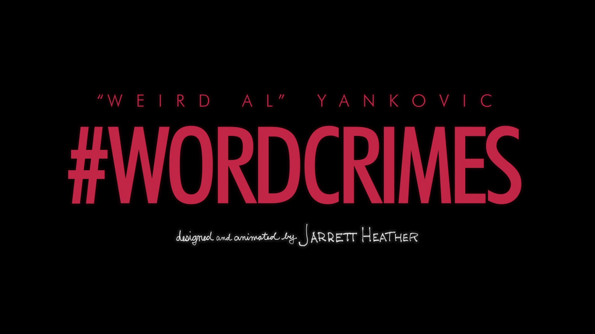 The title card for the video "Word Crimes" by Weird Al Yankovic, produced by Jarrett Heather.